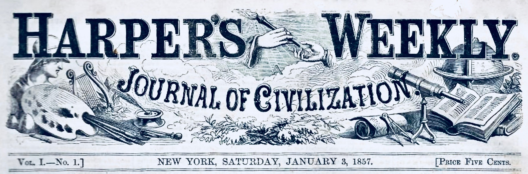 Front title of Harper's Weekly, Saturday, January 3, 1857